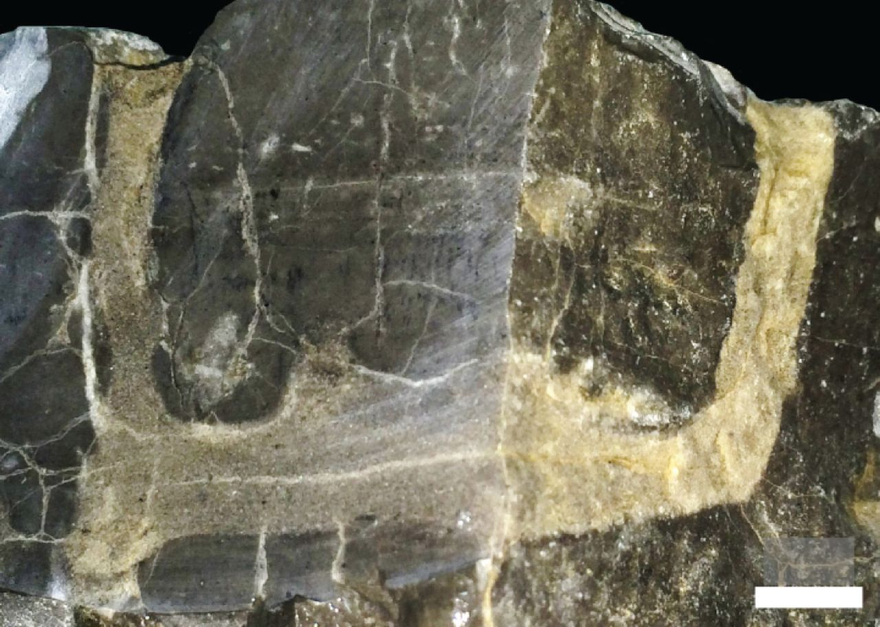 Arenicolites vertical plane. Full vertical U-shaped morphology of J-shaped trace fossil revealed through vertical sectioning with rock saw with two oblique cuts. Readily identifiable as Arenicolites. Scale bar = 1 cm.